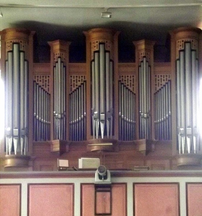 Hugo-Mayer-Organ of the church in Nonnweile-Kastel, Saaarland, Germany